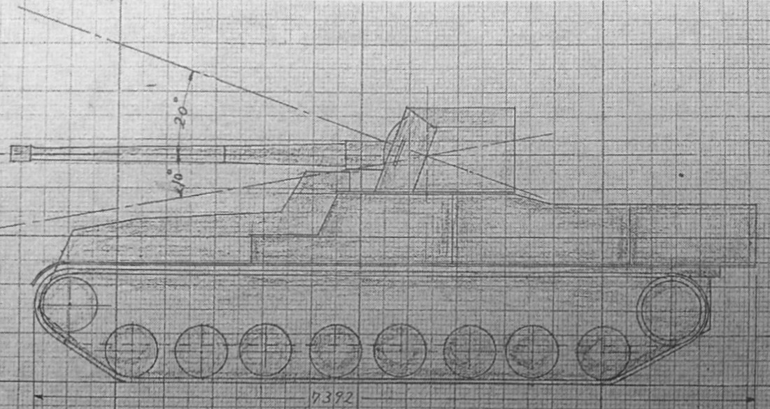 Imperial Japanese Army Experimental 105mm anti-tank self-propelled gun (tank destroyer) Ka-To. A plan illustrating the side view.